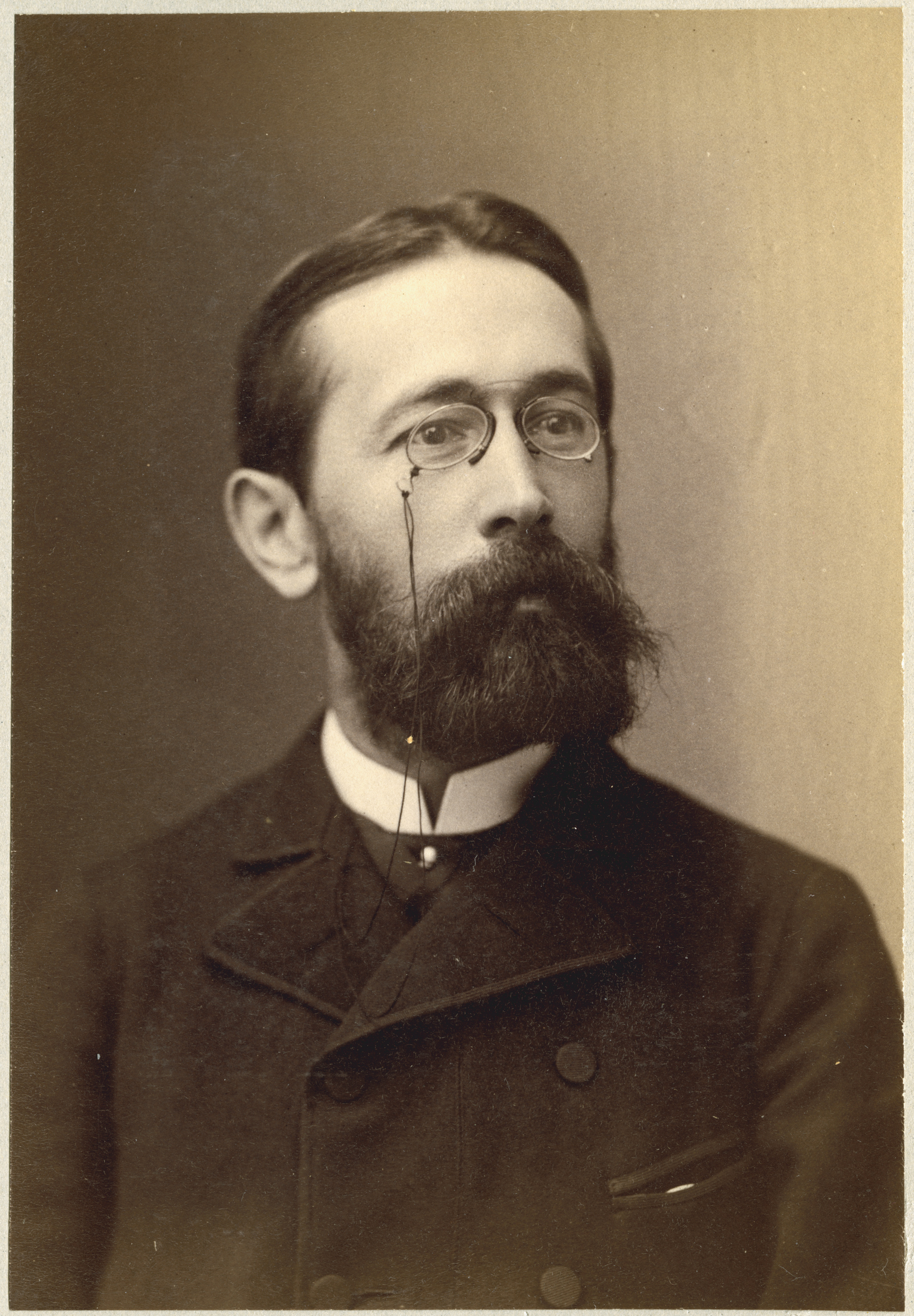 Dr Frédéric Ferrière.